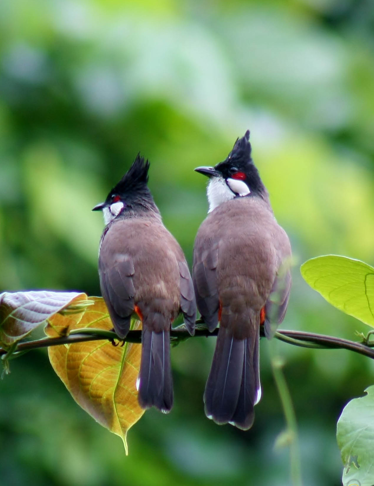 Red-whiskered Bulbul. Fung Yuen, HK.